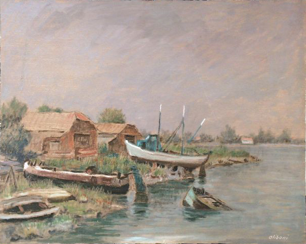 Painting by Silvio Oliboni : Squero In Laguna / 0138ac